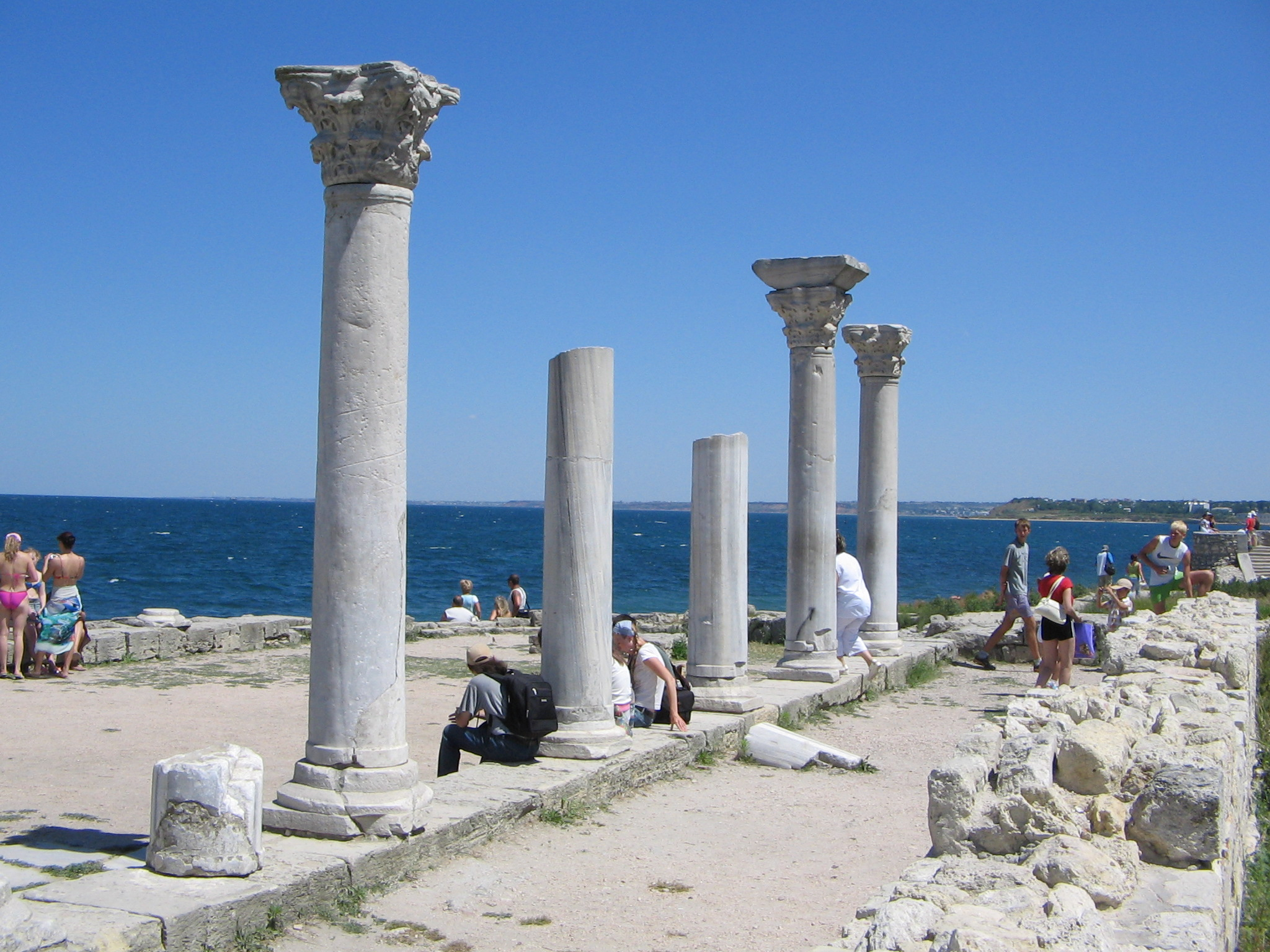 Chersones, Sevastopol, Ukraine